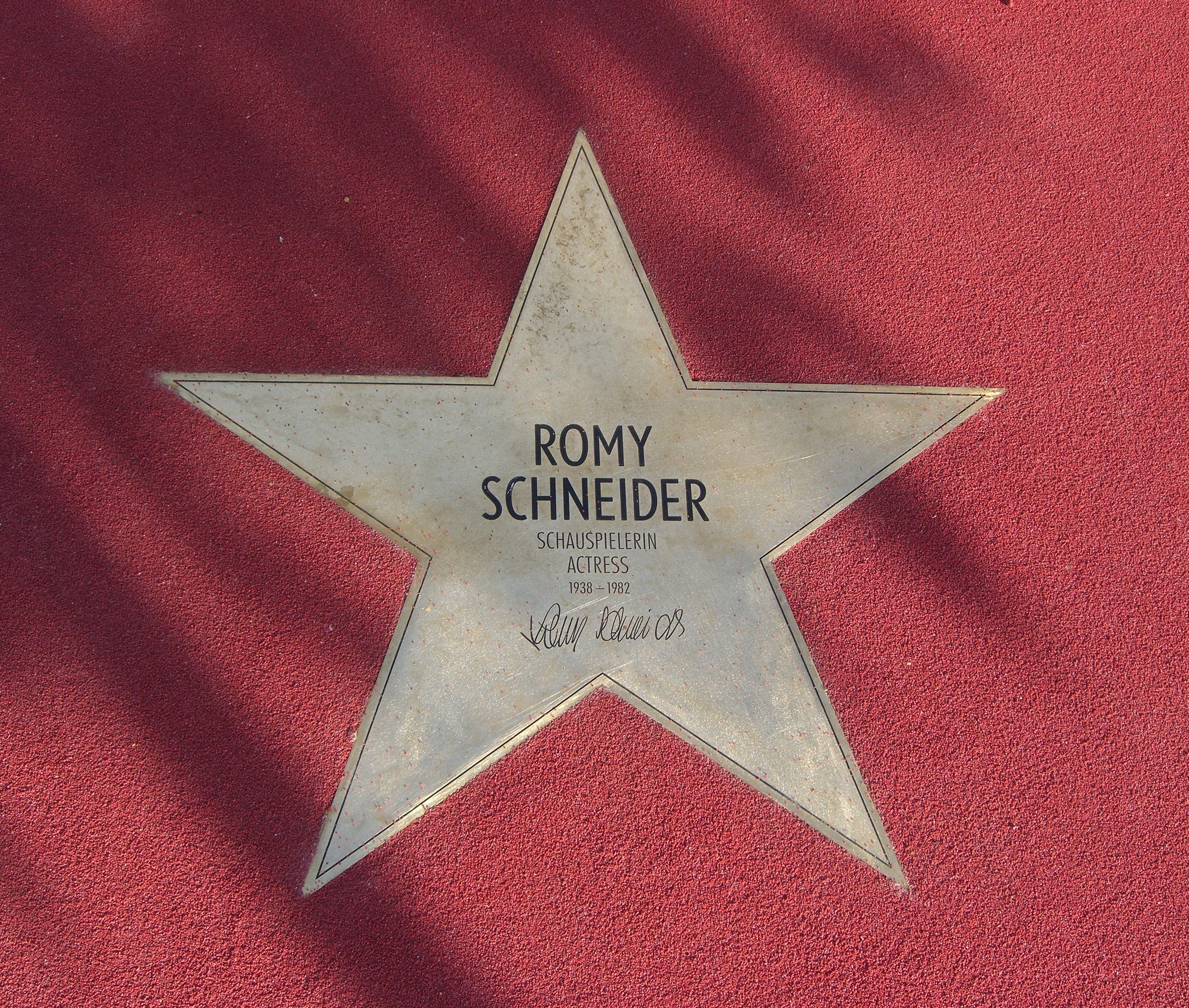 Star of Romy Schneider at "Boulevard der Stars" in Berlin.